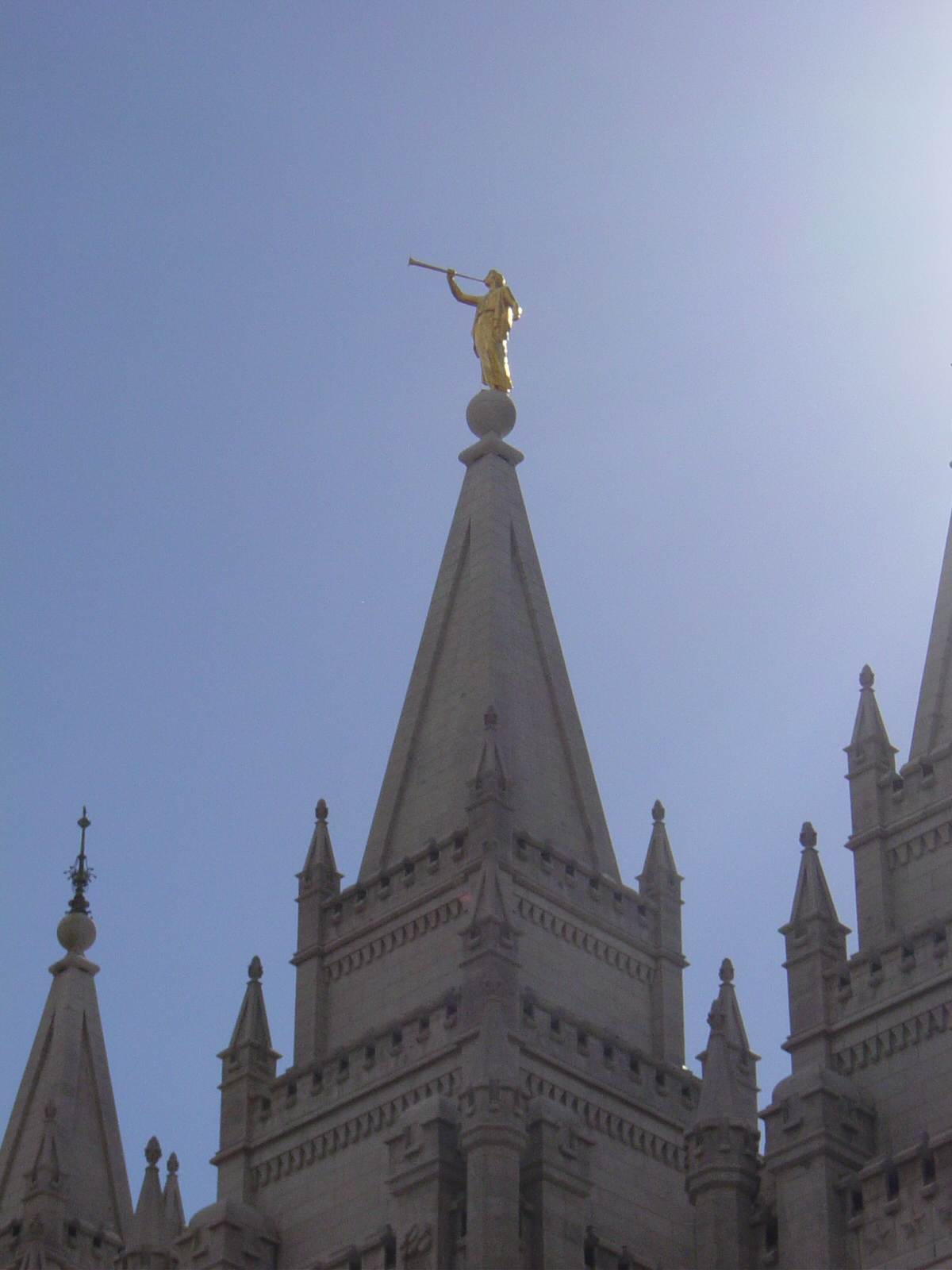 The statue of the Prophet Moroni at the top of the Centre Spire of the Salt Lake Temple, Salt Lake City, Utah. Sculptor Cyrus Edwin Dallin}. Taken by me in April 2005.